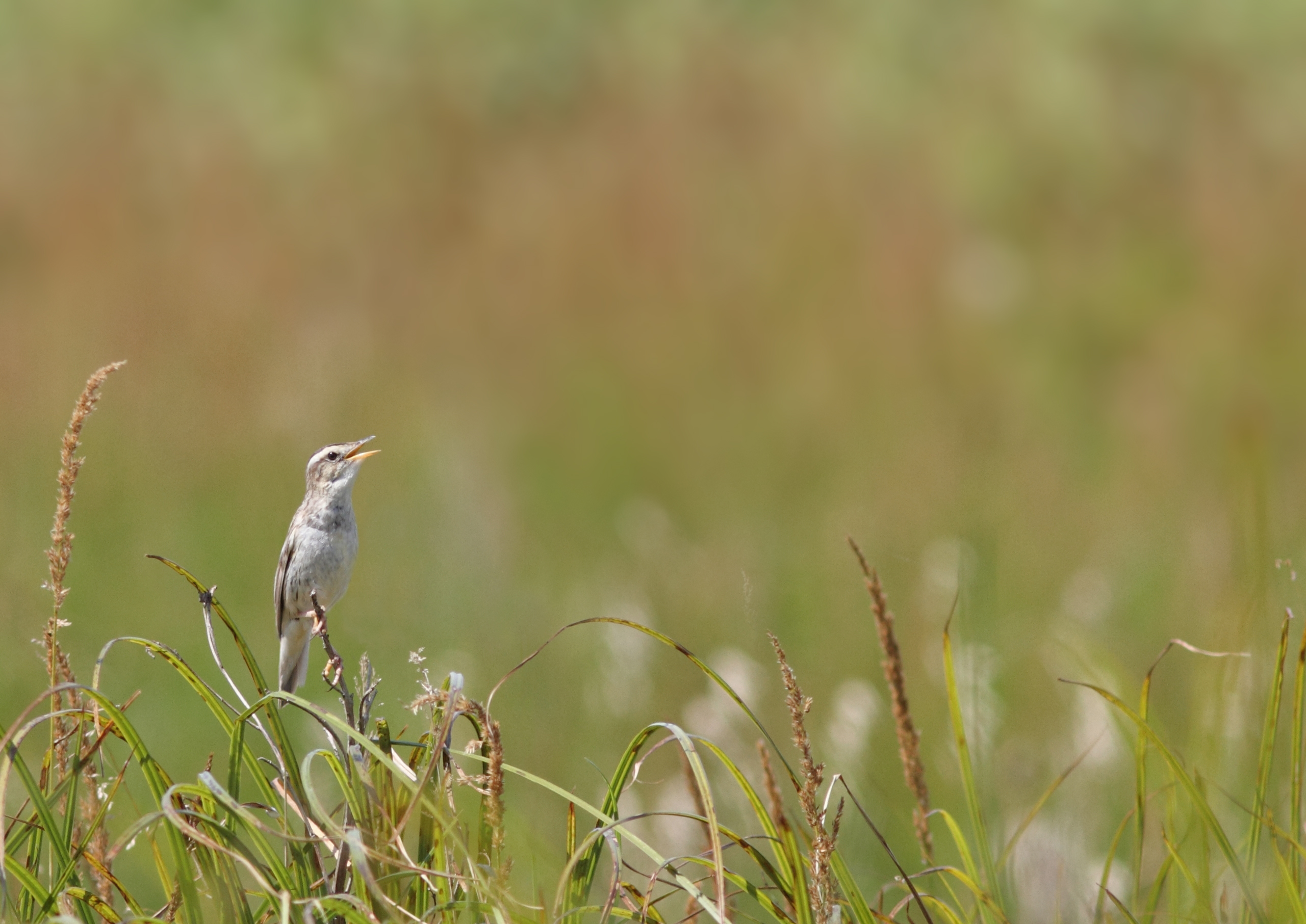 Aquatic warbler (Acrocephalus paludicola) singing in its typical breeding habitat: sedge marsh. The sedge marshes of the Biebrza are among its last breeding strongholds.